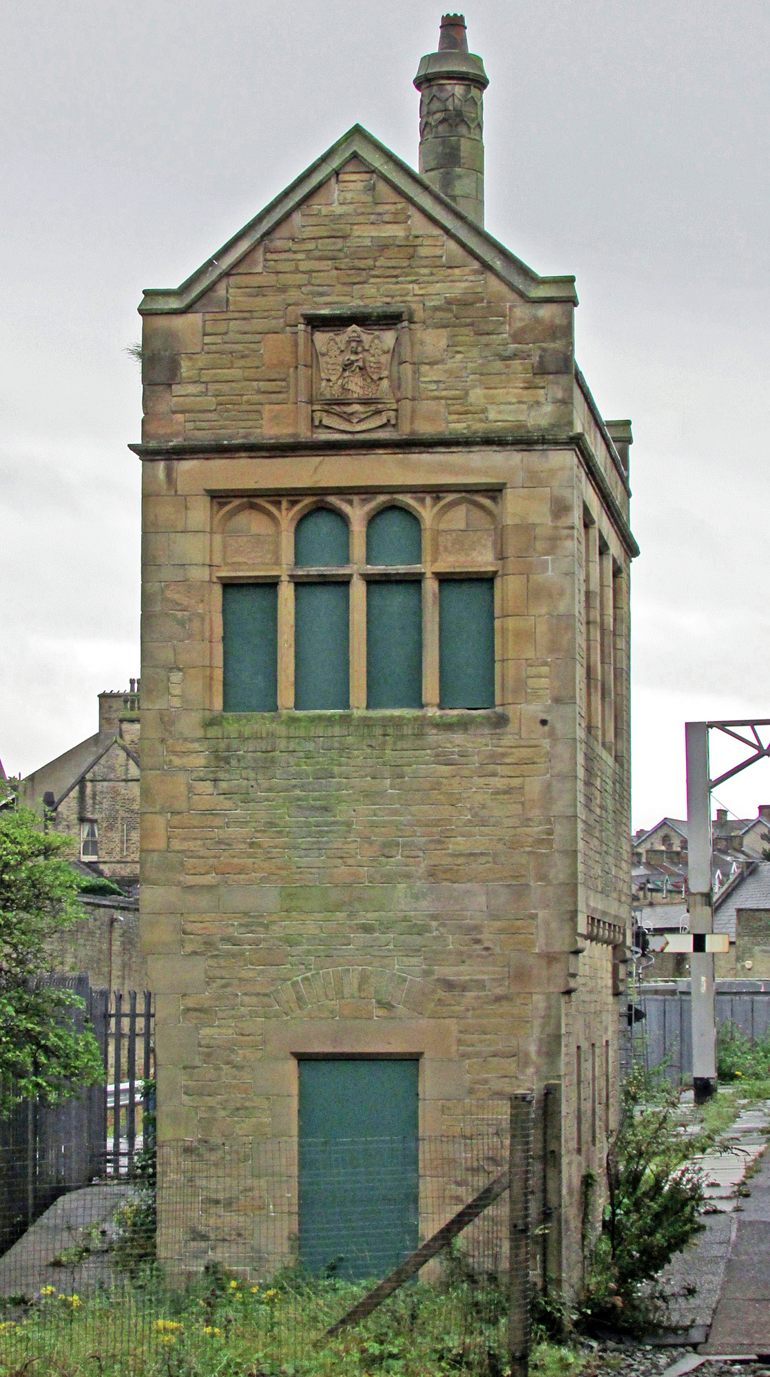 Carnforth signal box built in 1882 by the Furness Railway and now (2016) a listed building'